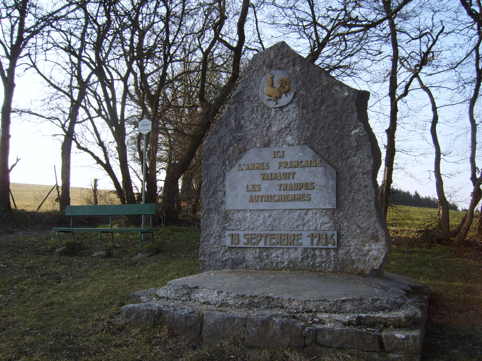 La Redoute Liège-Bastogne-Liège's bicycle race difficulty at Aywaille; Monument in honour of the French victory against the Austrian Troops in 1794 Text: "Here the French Army won against the Austrian troops".